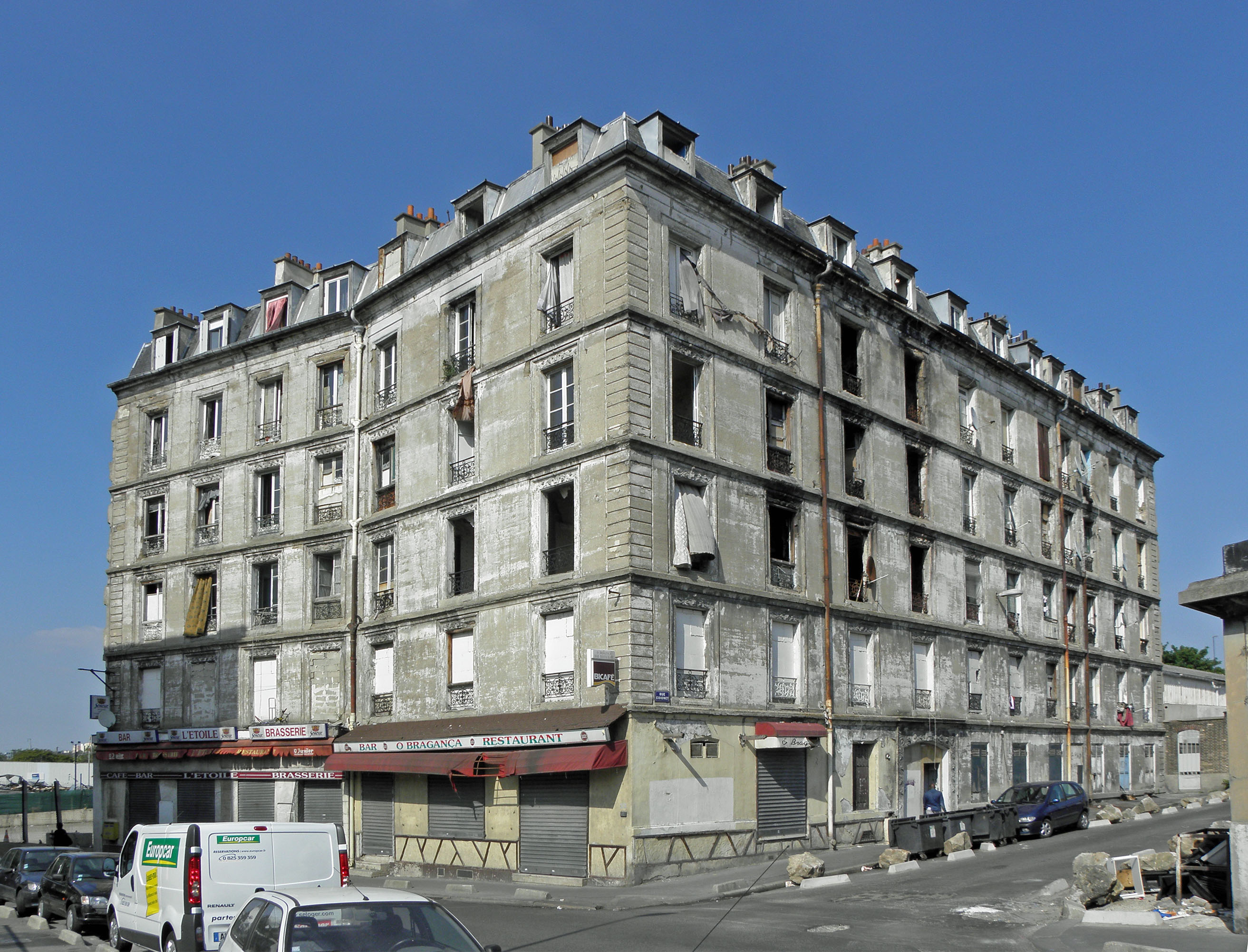 Area of Saint-Denis Confluence Station (France), before renovation